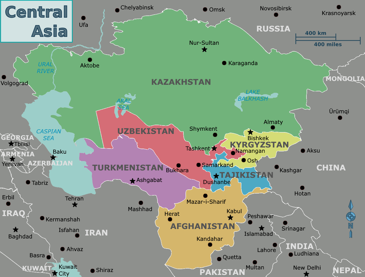 Map of Central Asia for use on Wikivoyage, English version